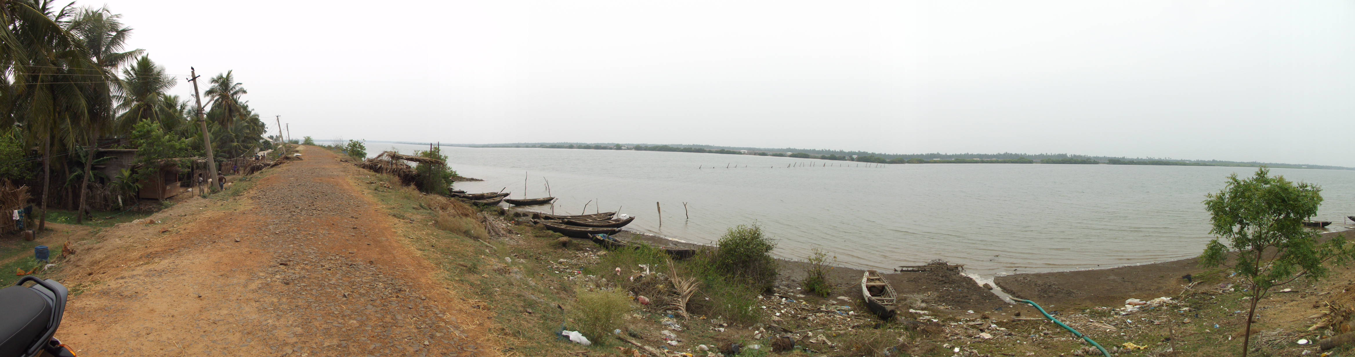 rever bank of godavari-2